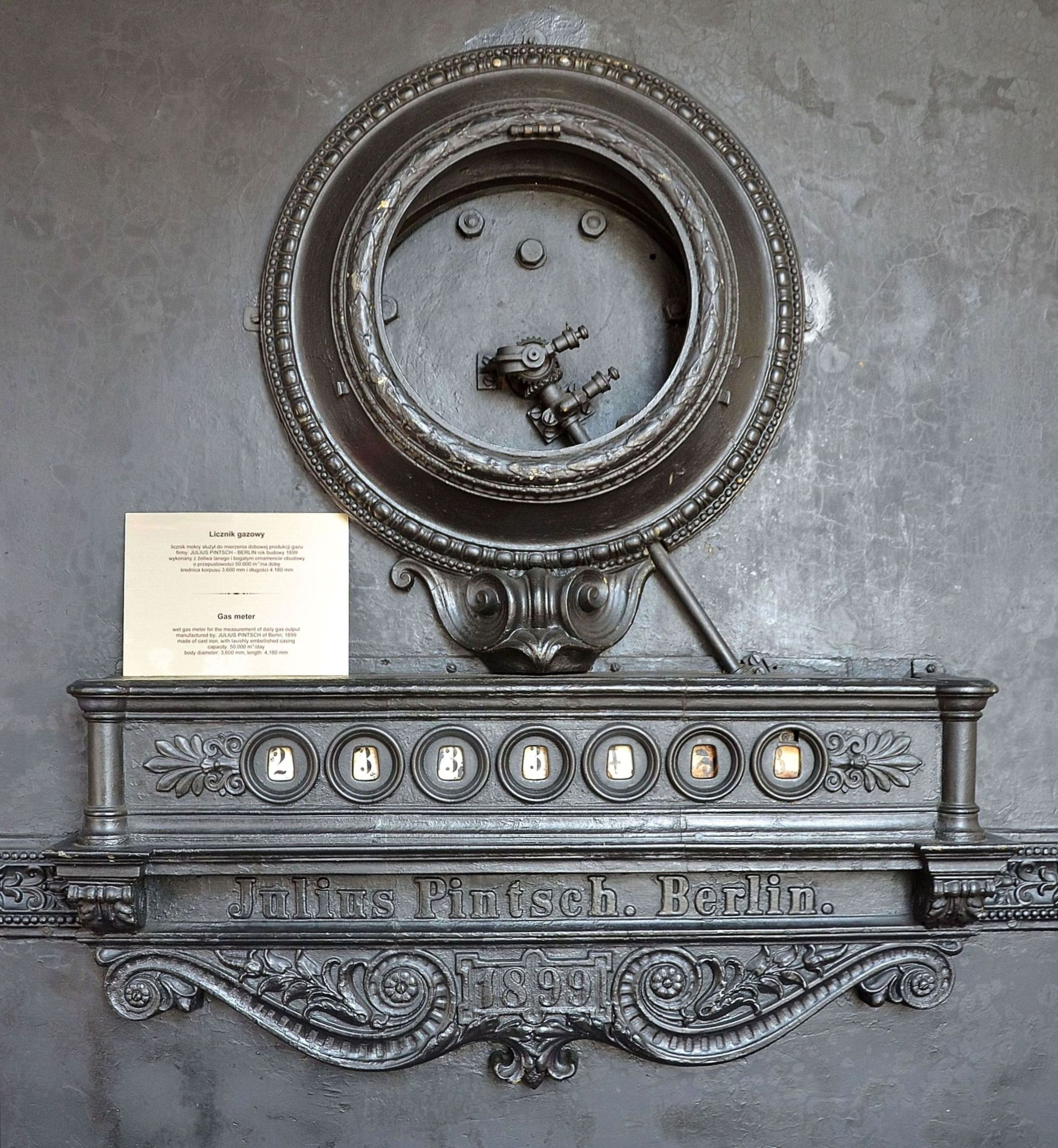 Original gas meter manufactured by Julius Pintsch of Berlin in 1899 in the Gas Museum in Warsaw